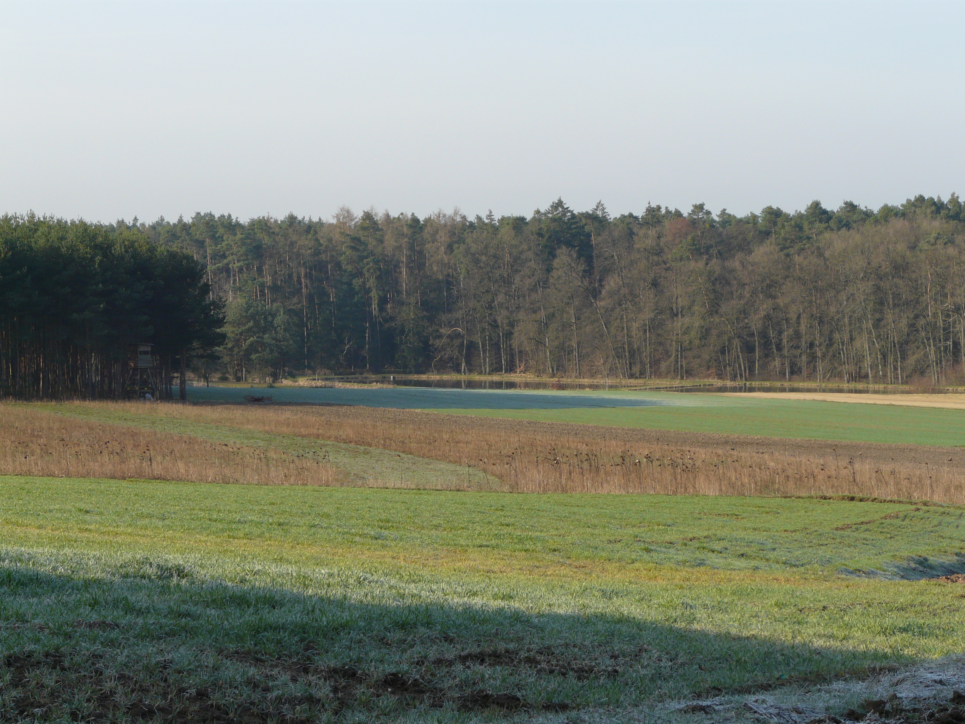 Landscape between Dechendorf, Röhrach und Röttenbach